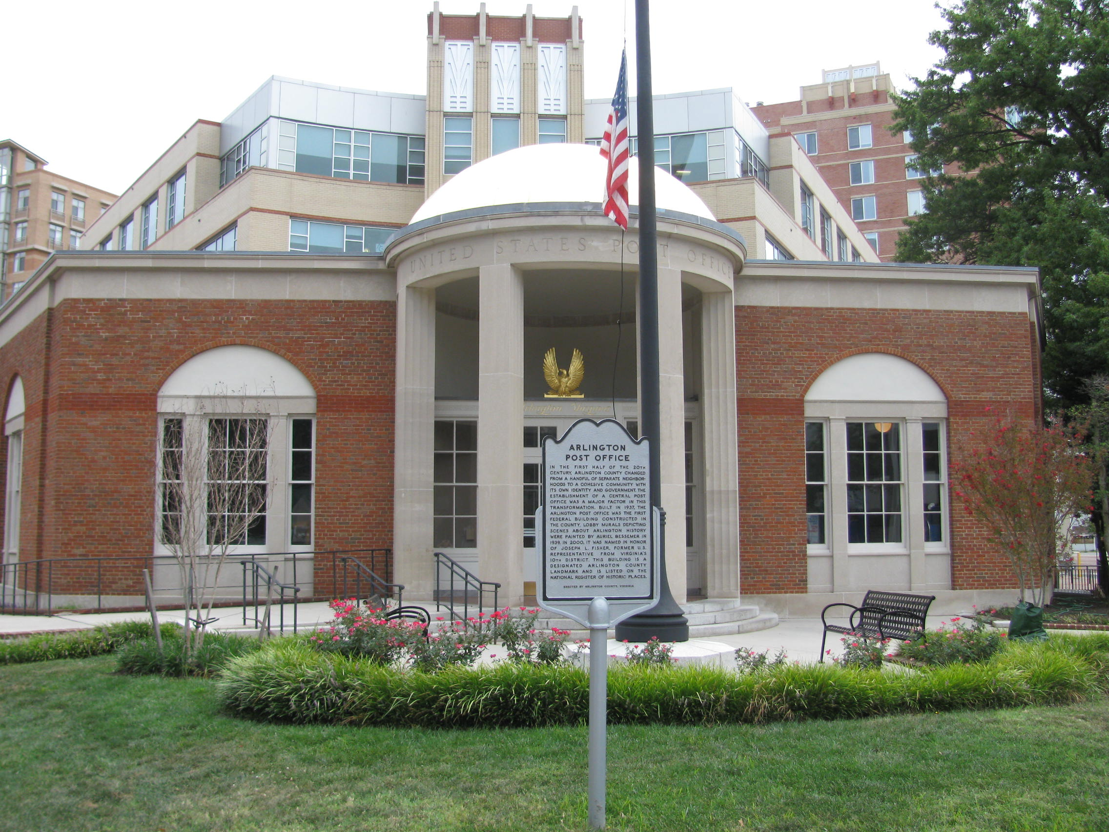 US Post Office-Arlington; flag at half staff for Neil Armstrong